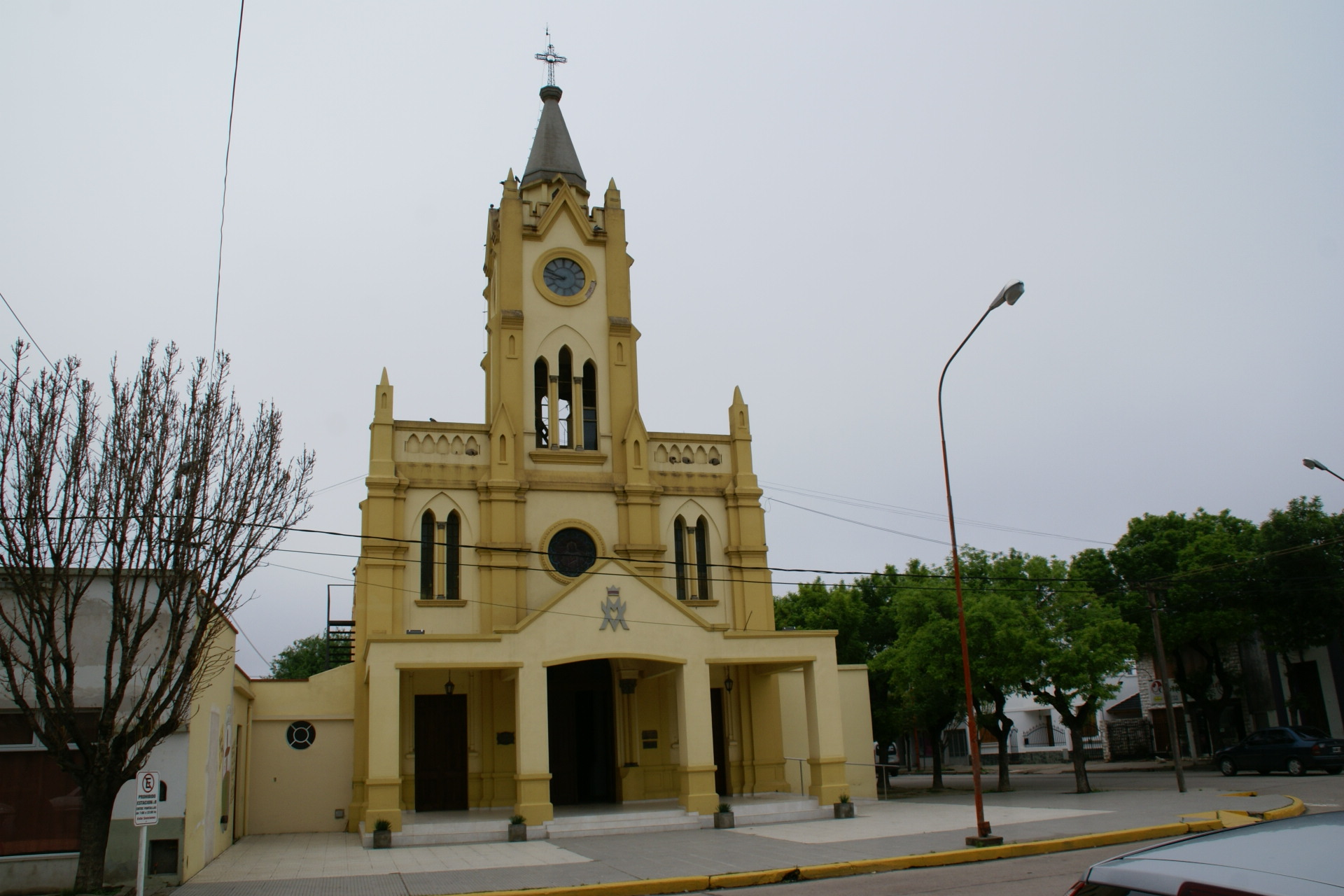 Church in Corral de Bustos, Córdoba Province, Argentina